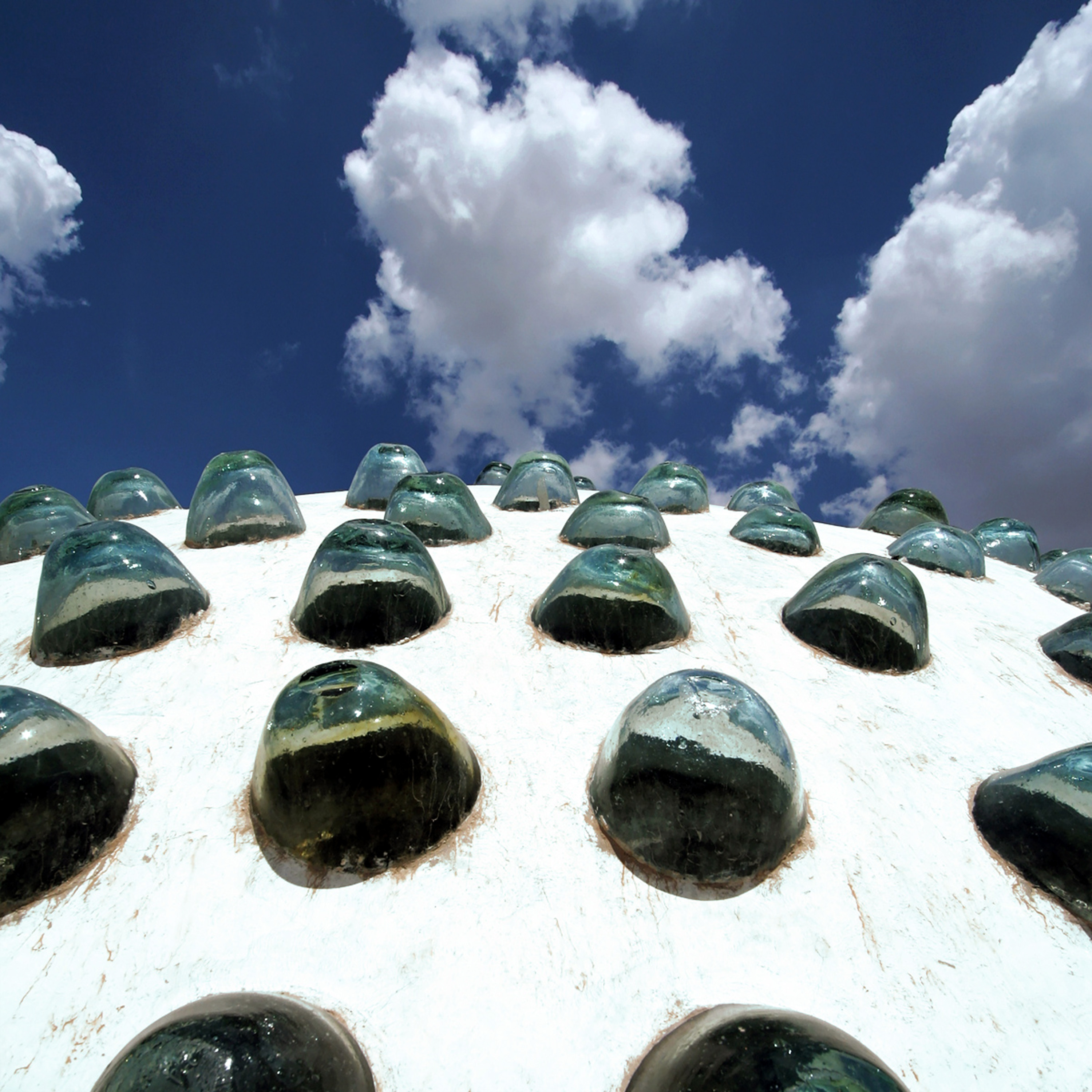 The dome roof of the Great Mosque at the Citadel of Aleppo, with "bottle" skylights, in Syria. The Citadel of Aleppo is a large medieval fortified palace in the center of the old city of Aleppo, northern Syria. It is considered to be one of the oldest and largest castles in the world. Usage of the Citadel hill dates back at least to the middle of the 3rd millennium BCE. Subsequently occupied by many civilizations including the Greeks, Byzantines, Ayyubids and Mamluks, the majority of the construction as it stands today is thought to originate from the Ayyubid period. An extensive conservation work has taken place in the 2000s by the Aga Khan Trust for Culture in collaboration with Aleppo Archeological Society. Dominating the city, the Citadel is part of the Ancient City of Aleppo, a UNESCO World Heritage Site since 1986.